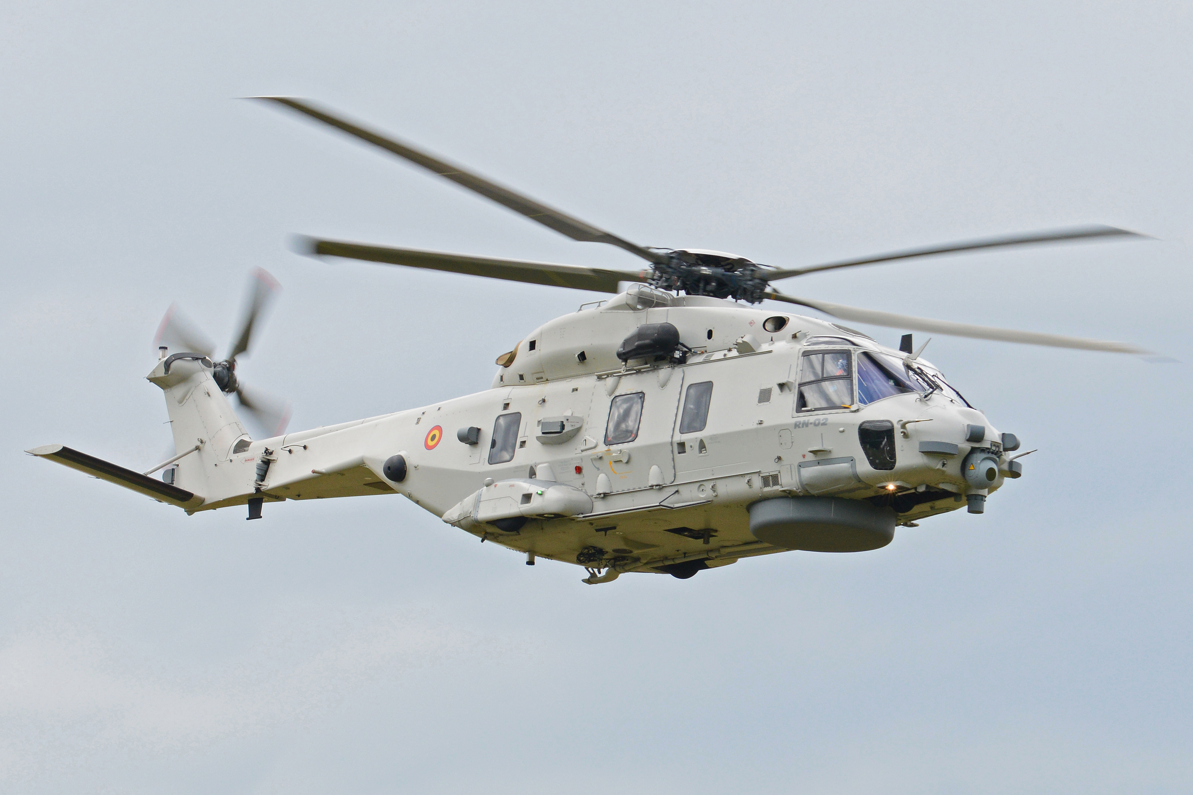 c/n 1041, l/n NBEN02. Operated by 40sqn, Belgian Air Force. Displaying at the 2016 BAFDAY held at Florennes Air Base, Belguim. 25-6-2016